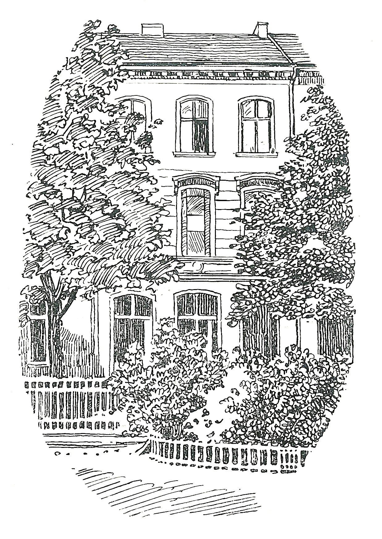 Former house of student fraternity Corps Saxonia Bonn in Bonn/Germany, Bahnhofstrasse 40